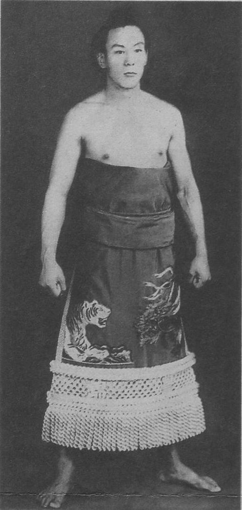 Toyonishiki Kiichirō (Maegashira).